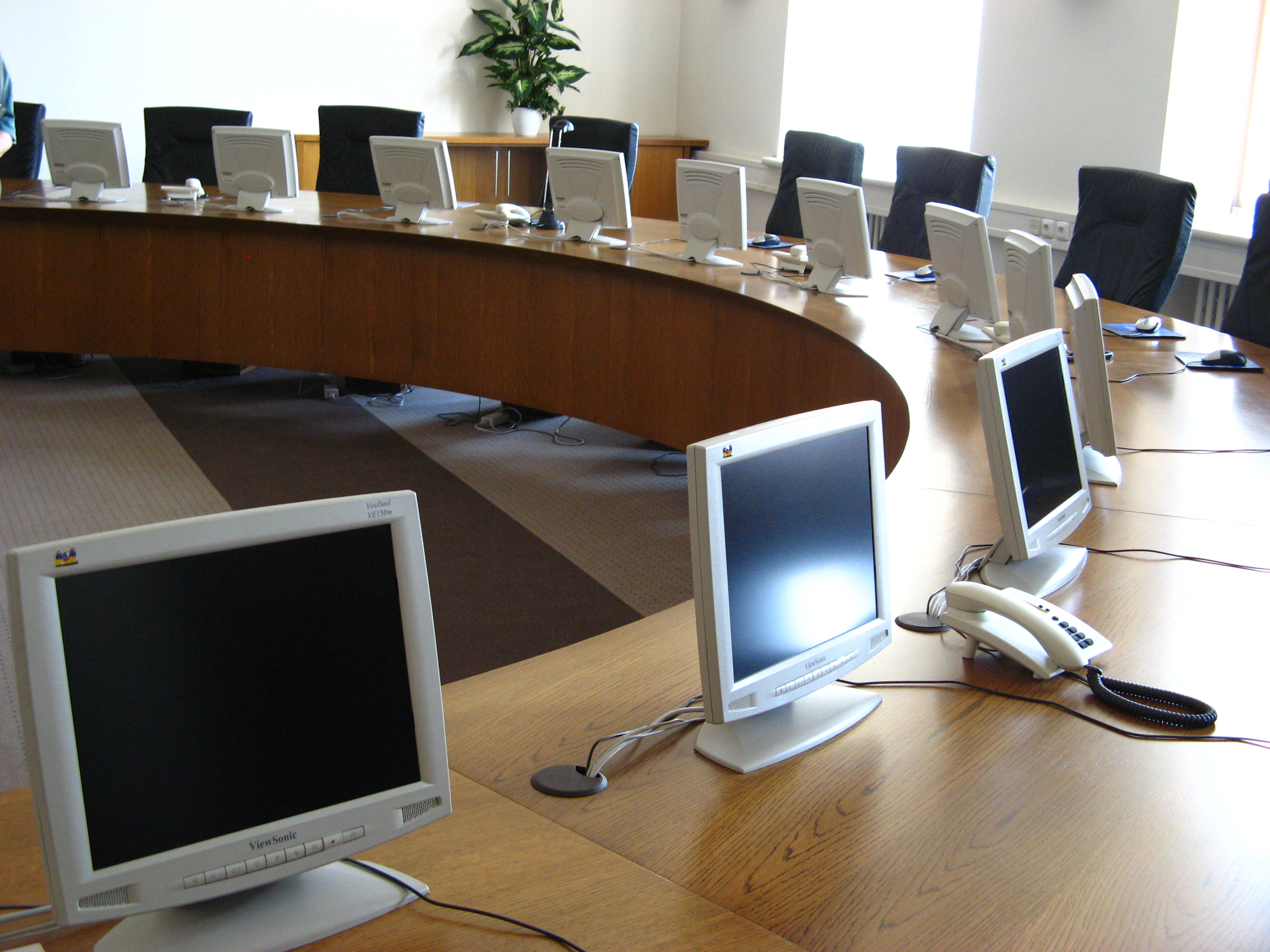 New regional palace, Zerotinovo square 3/5, Brno, Czech Republic. Regional council boardroom.